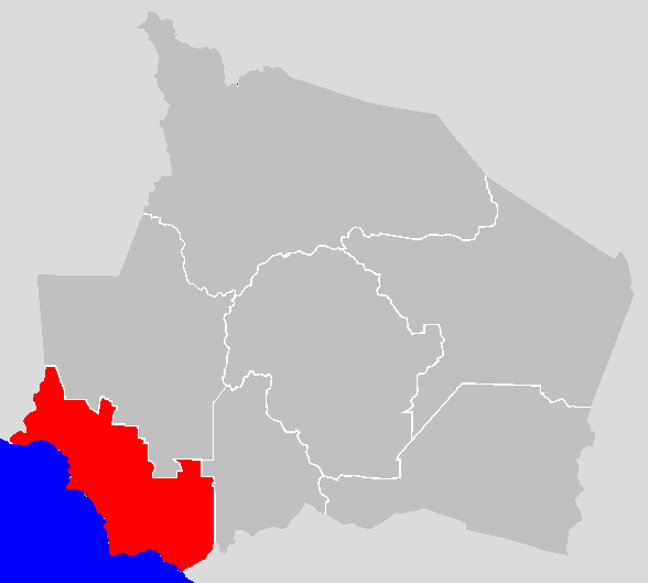 district map of Negeri Sembilan , Malaysia (using [1] as reference)